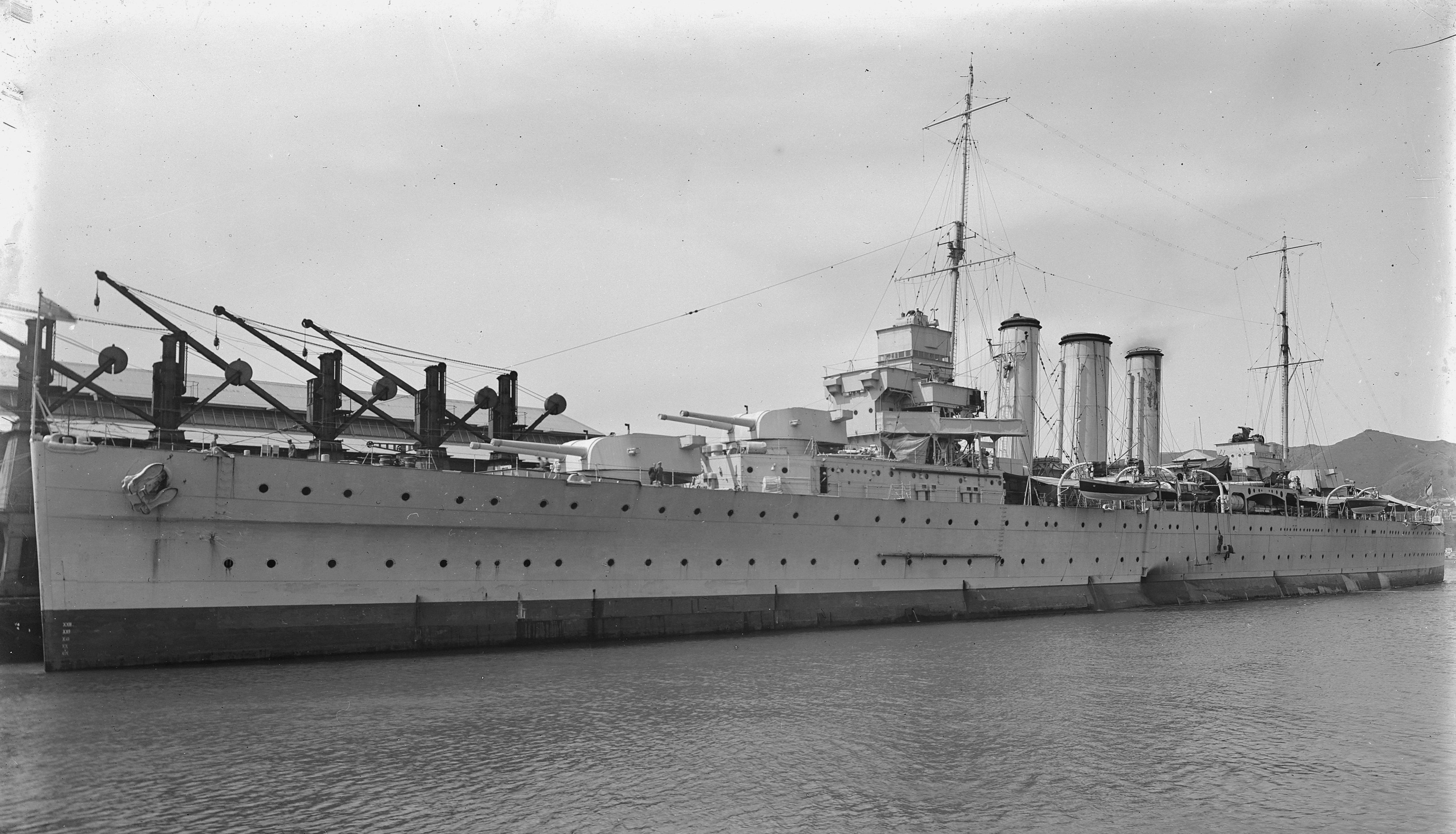 HMAS Canberra at Kings Wharf, Wellington, ca 1930s Reference number: 1/2-100605 Photographic Archive, Alexander Turnbull Library, Wellington, New Zealand.